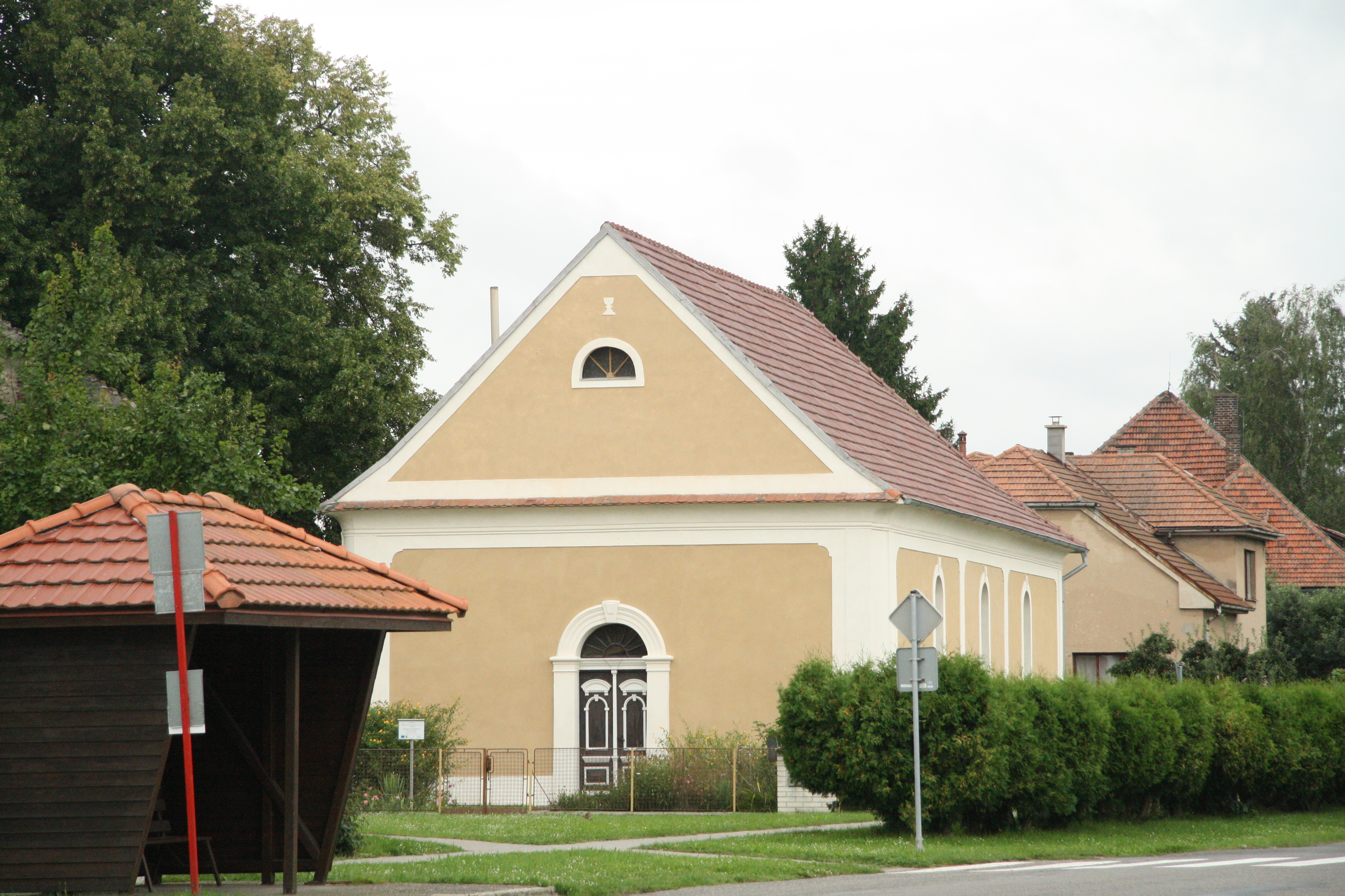 Evangelical church in Hořátev, Nymburk District.